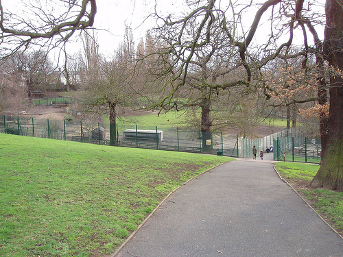 View of Maryon Wilson Park